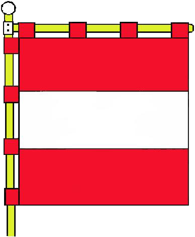 Banner of Chernyahivka